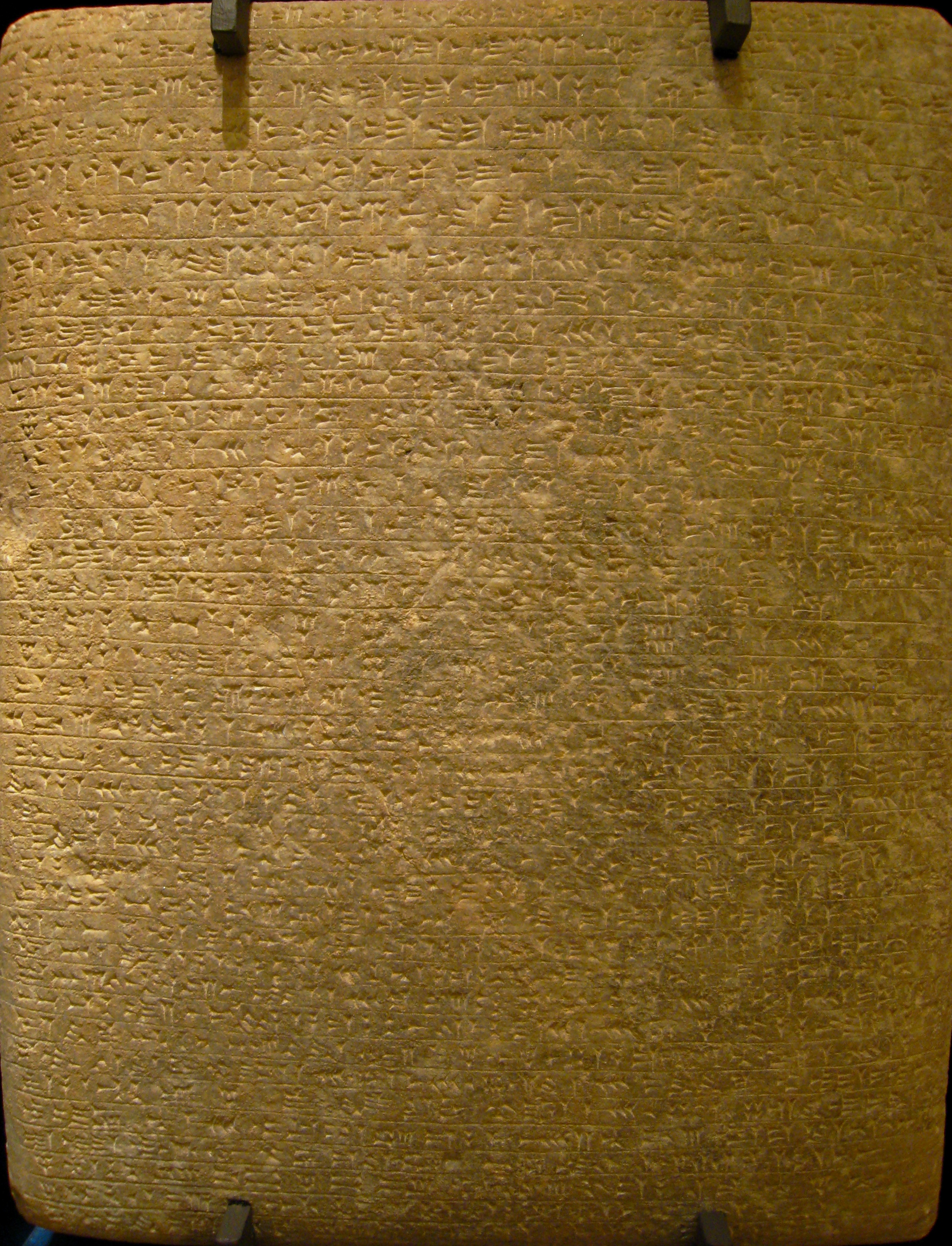 Account of Assurnasipal II's war campaigns. Alabaster, Fort Shalmaneser, Nimrud. (9th century BC)